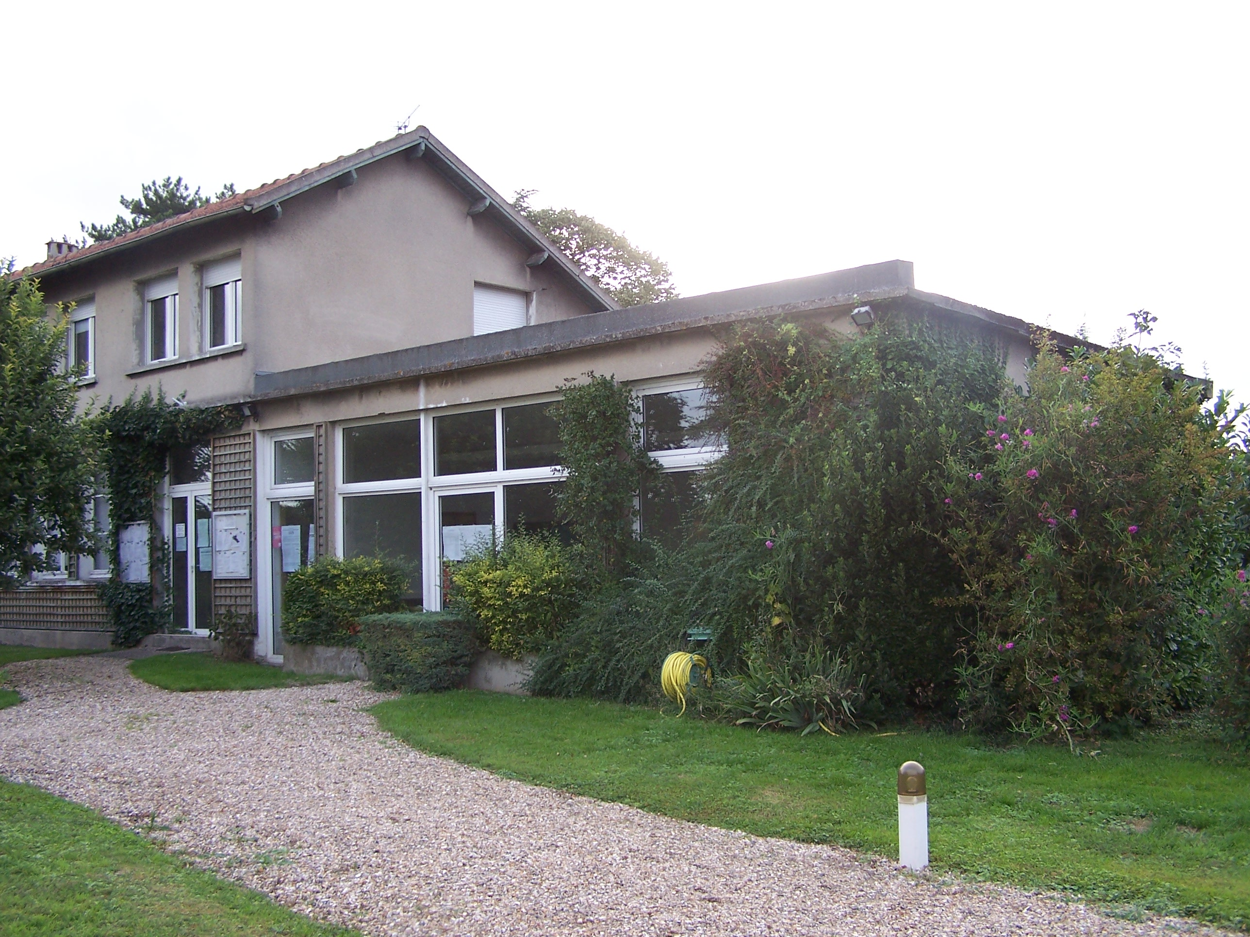 Hôtel de ville de Rennemoulin (Yvelines, France). Photo personnelle. Town hall of Rennemoulin (Yvelines, France). Personal photo. Auteur/Author : Henry Salomé